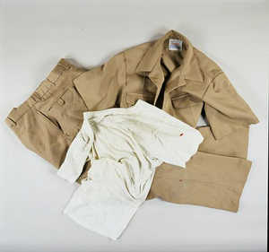 As a Navy captain, David Thomas plunged headlong into the burning Pentagon on Sept. 11, 2001, in search of his best friend. His friend died but he help free another trapped in side the Defense Department that dark day, and donated the seared uniform he wore that day. Now a Navy rear admiral he takes charge of the prison camps at Guantanamo Bay, Cuba.